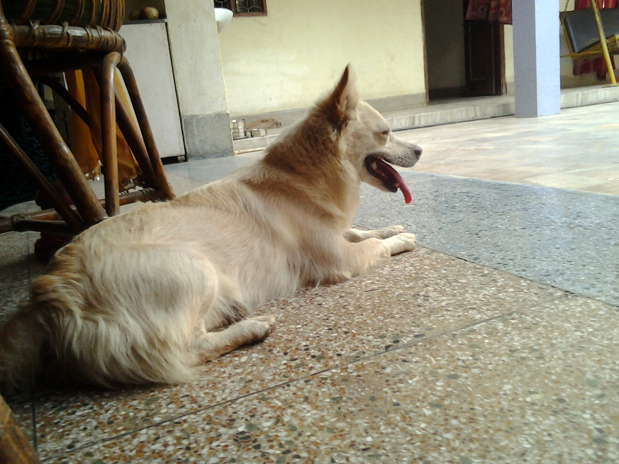 Indian spitz adapt very well to the household surroundings.